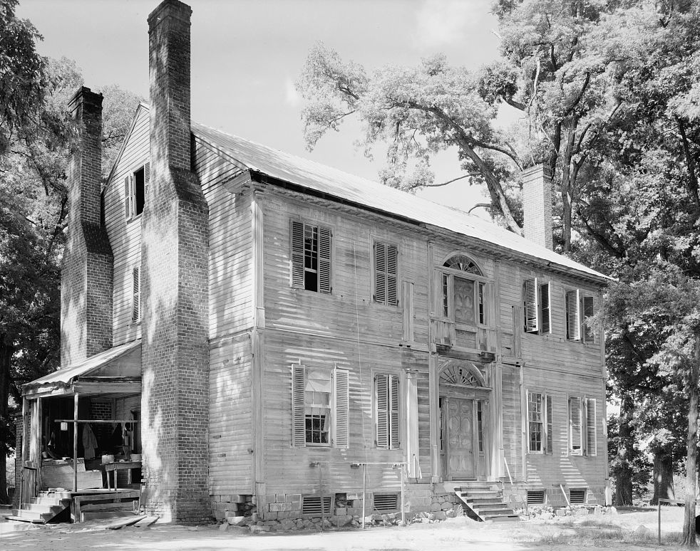 View of the exterior of Burnside plantation, State Route 1335, Williamsboro vicinity, Vance County, North Carolina, by the American photographer and photojournalist Frances Benjamin Johnston. Dated 1938. Image part of the Johnston archives, donated to the Library of Congress by the photographer in perpetuity, hence there are no restrictions on publication, as per the Library of Congress website. Image courtesy of the Prints and Photographs Division, Library of Congress, Washington, D.C.